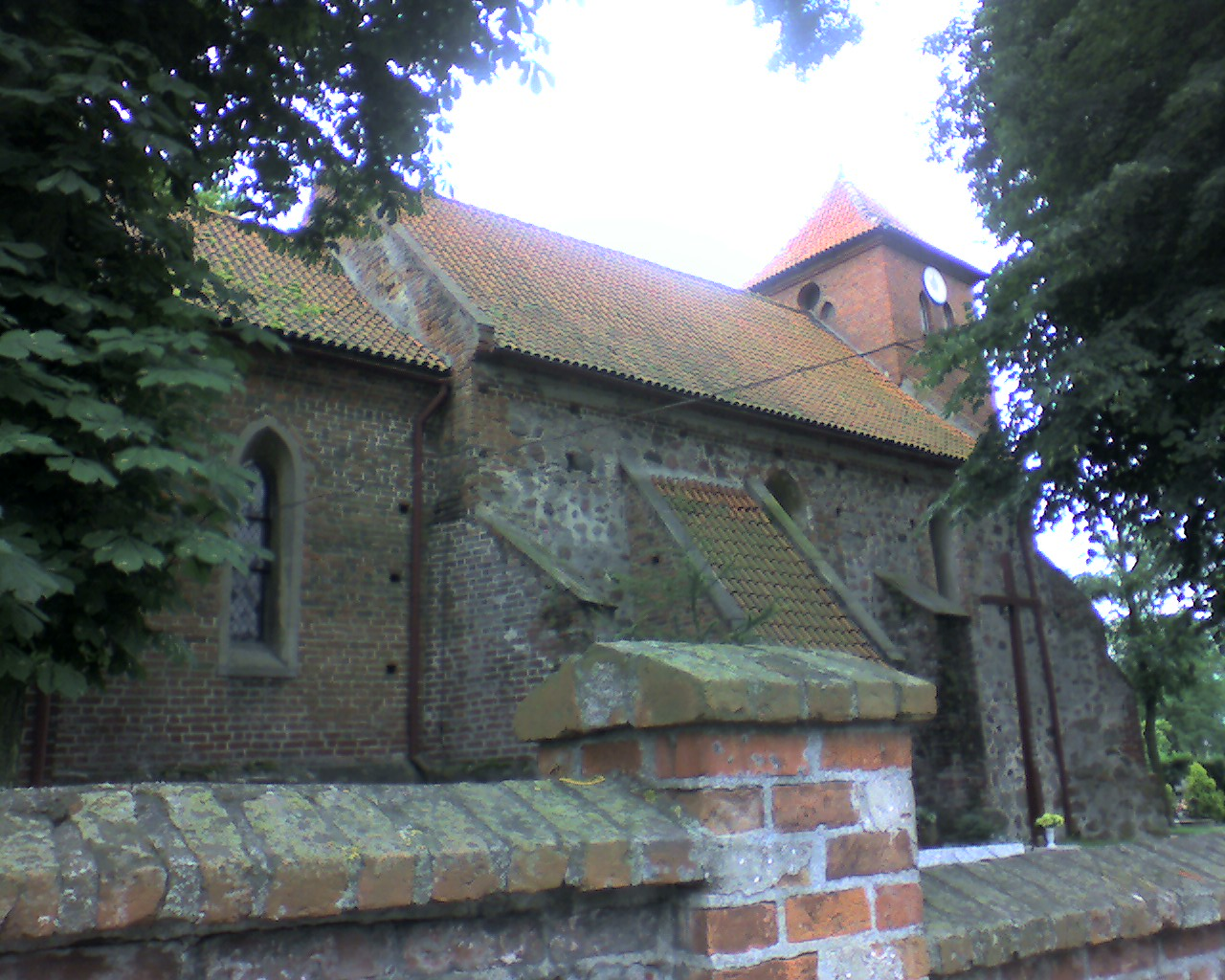 Church in Gostkowo near Toruń